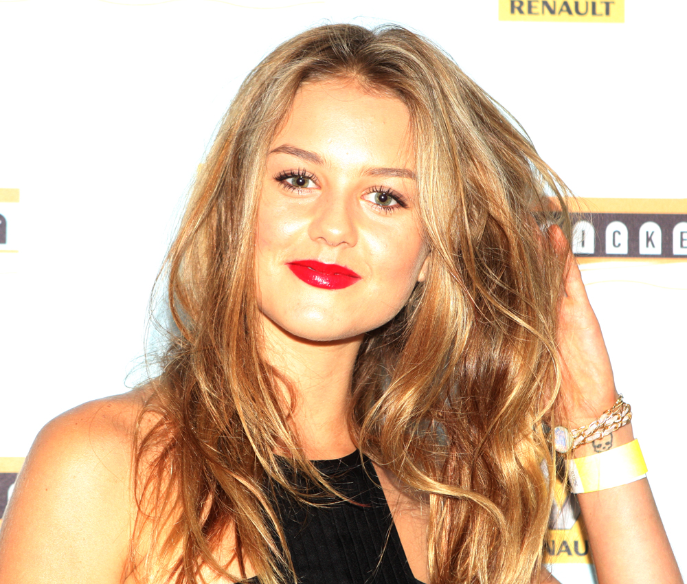 Flickerfest Short Film Festival opens at Bondi Pavilion, Bondi Beach, Sydney, Australia - 11th January 2013...